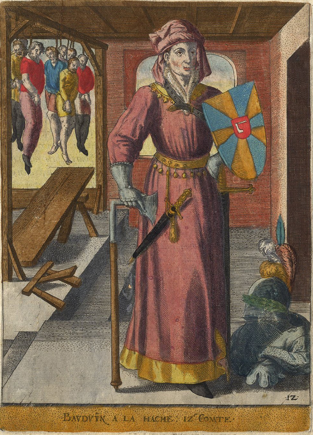 Baldwin VII of Flanders